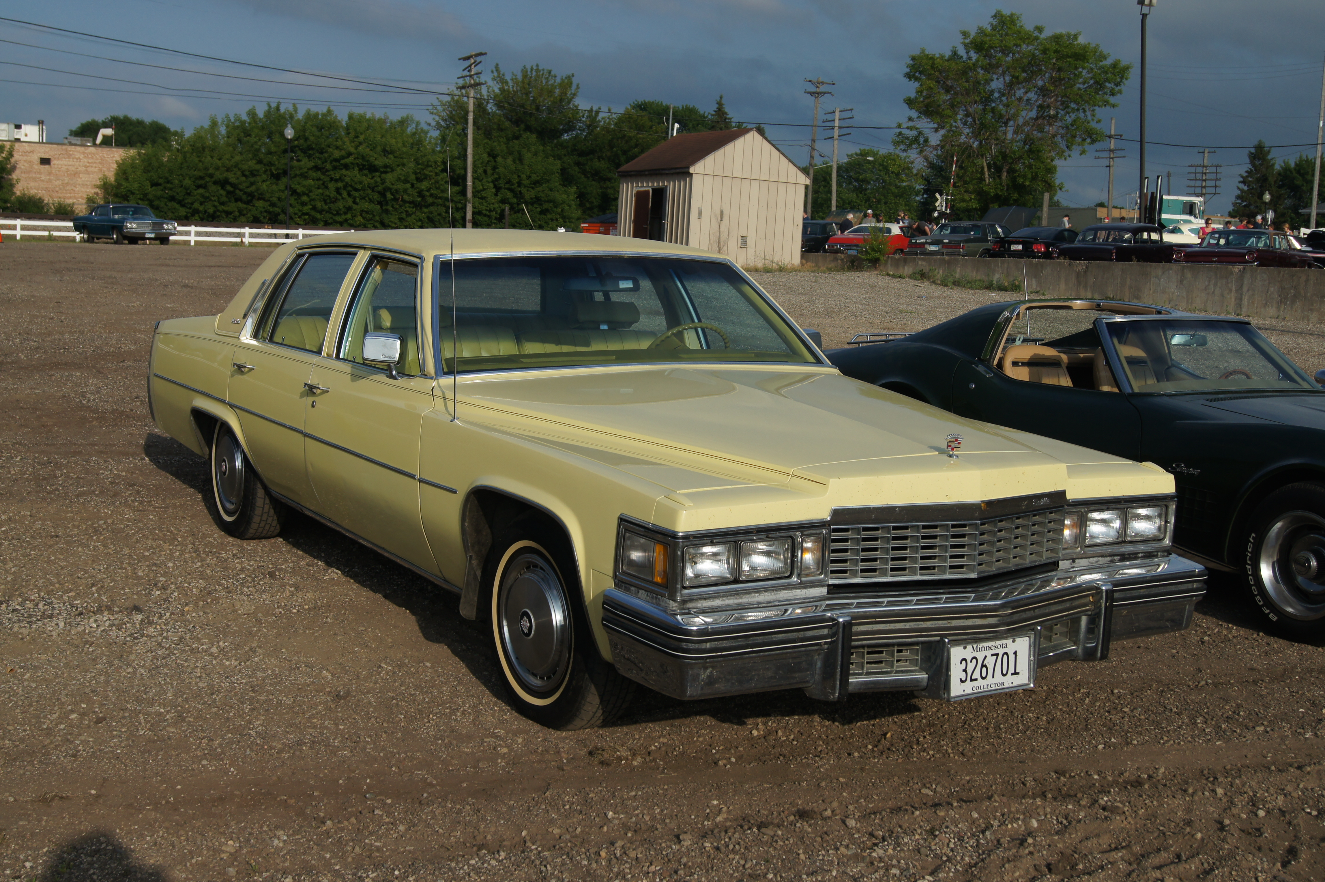 HISTORIC DOWNTOWN HASTINGS CRUISE-IN & CLASSIC CAR SHOW July 11, 2015 Click here for more car pictures at my Flickr site.